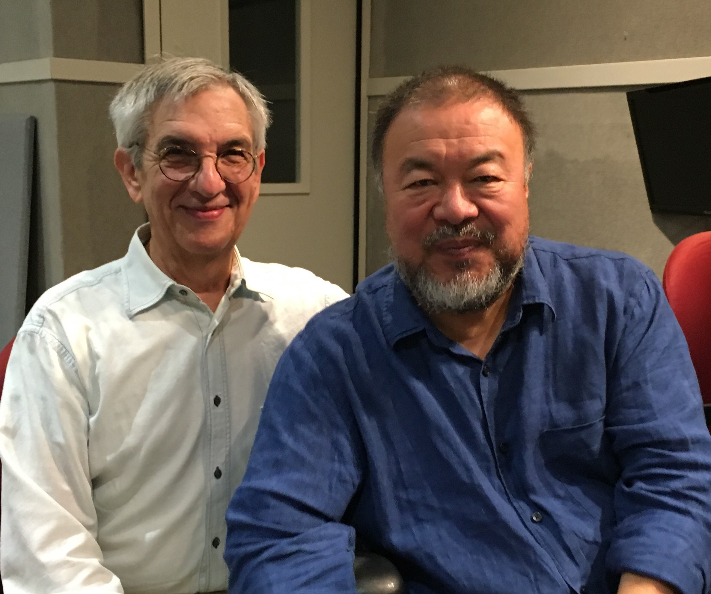 I took this photo of historian Jon Wiener and Chinese dissent artist Ai Wei Wei at the KPFK radio station in Los Angeles, CA, in 2017